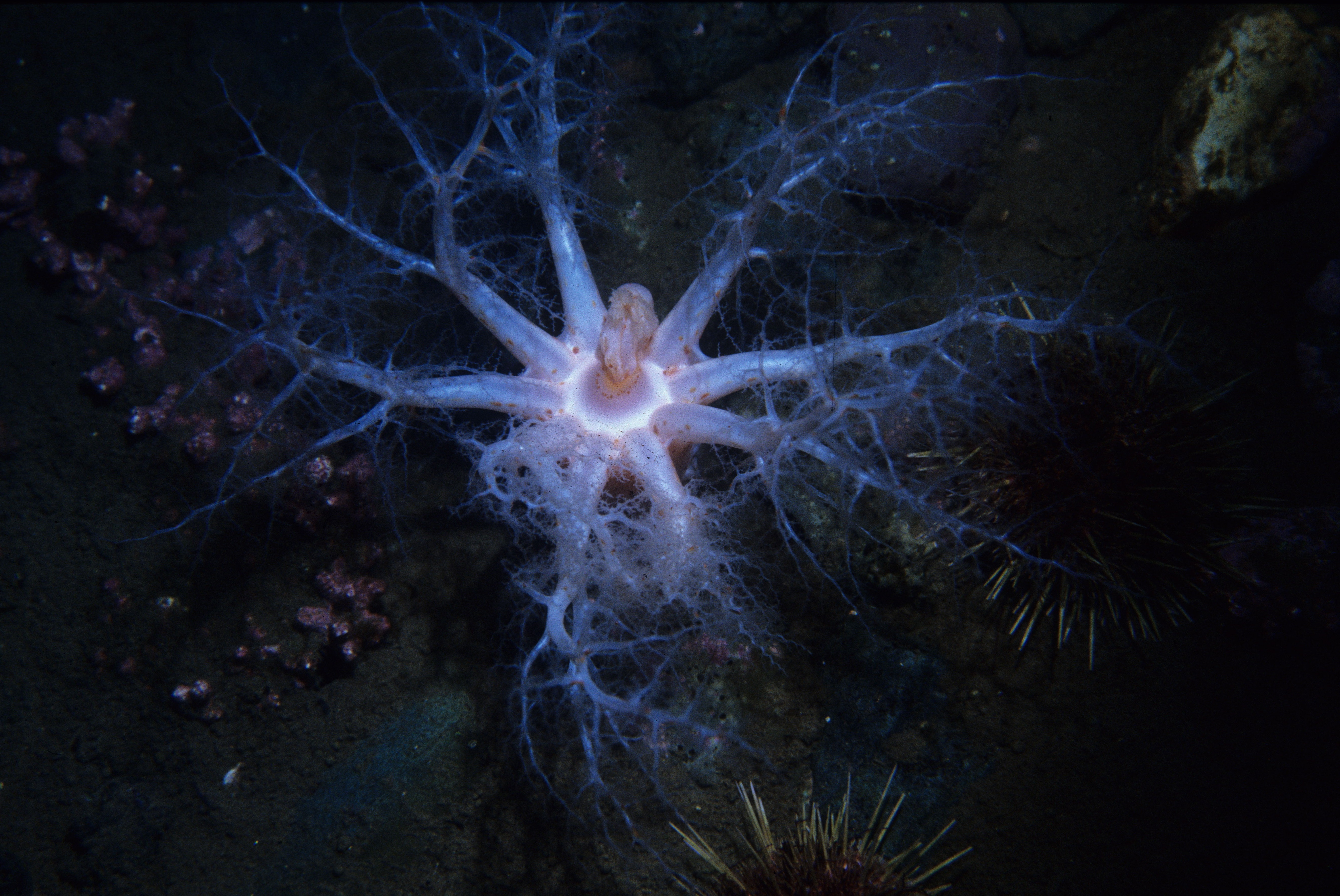 Brown Psolus, Psolus phantapus, in Newfoundland, Canada